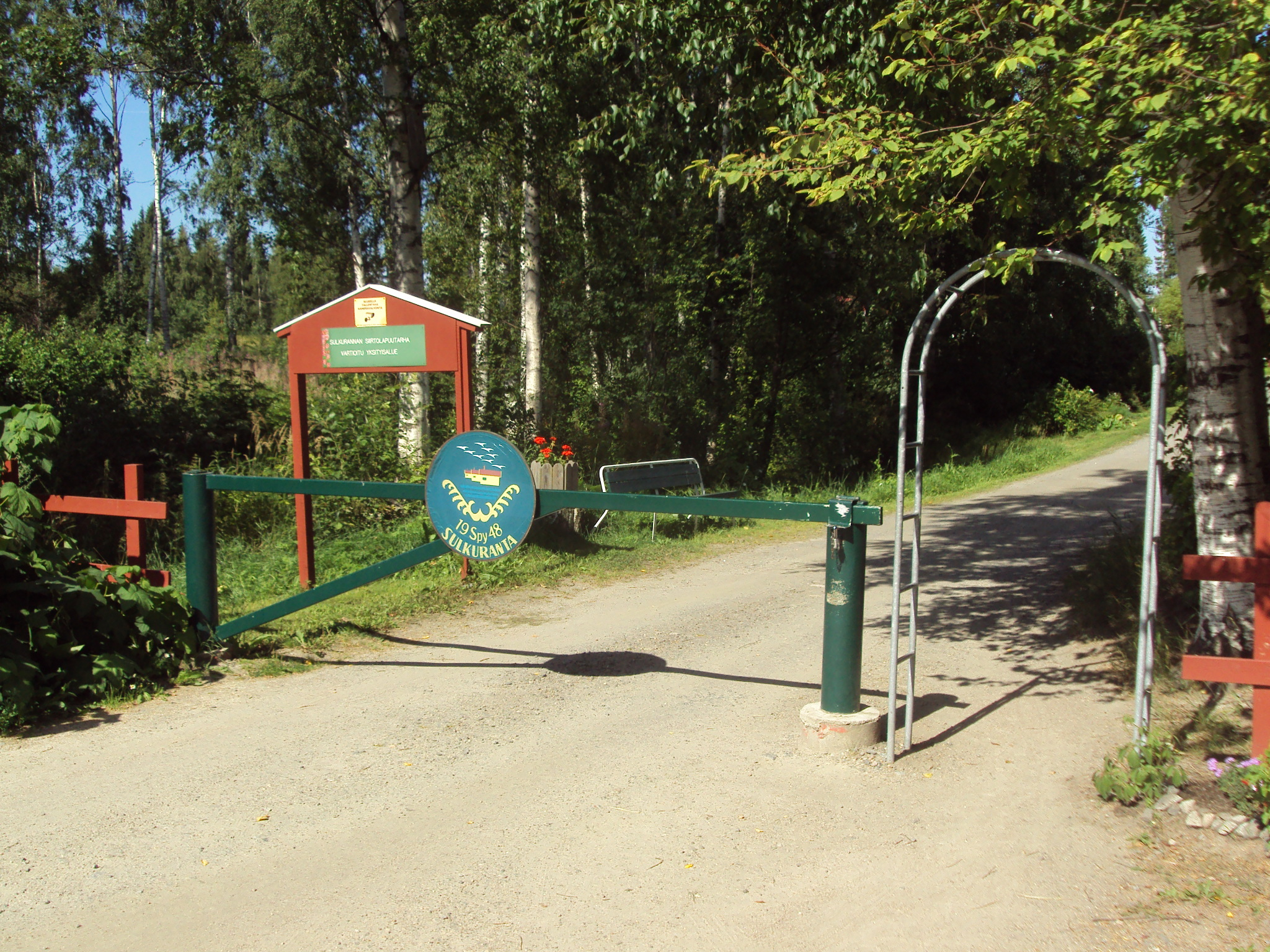 Sulkuranta Allotment Garden, Jyväskylä, Finland